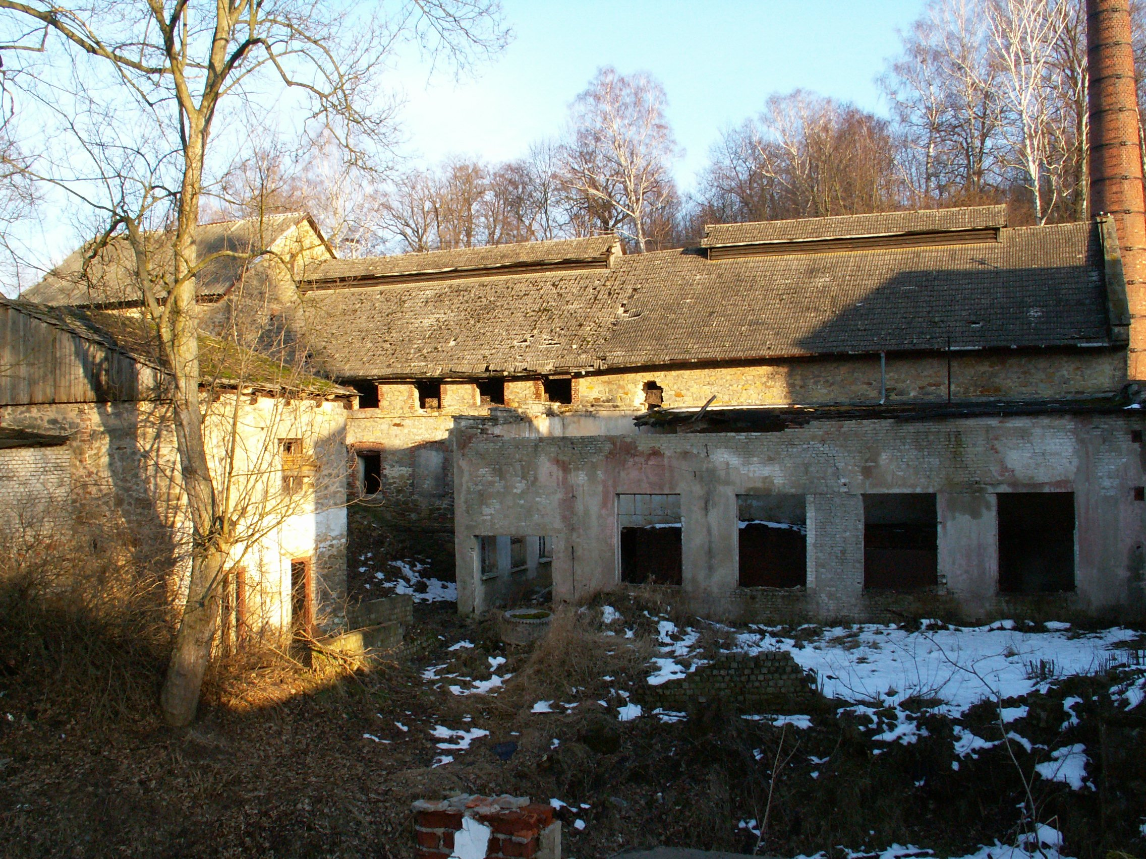 Ruins of cardboard factory in Doły Biskupie (Poland)